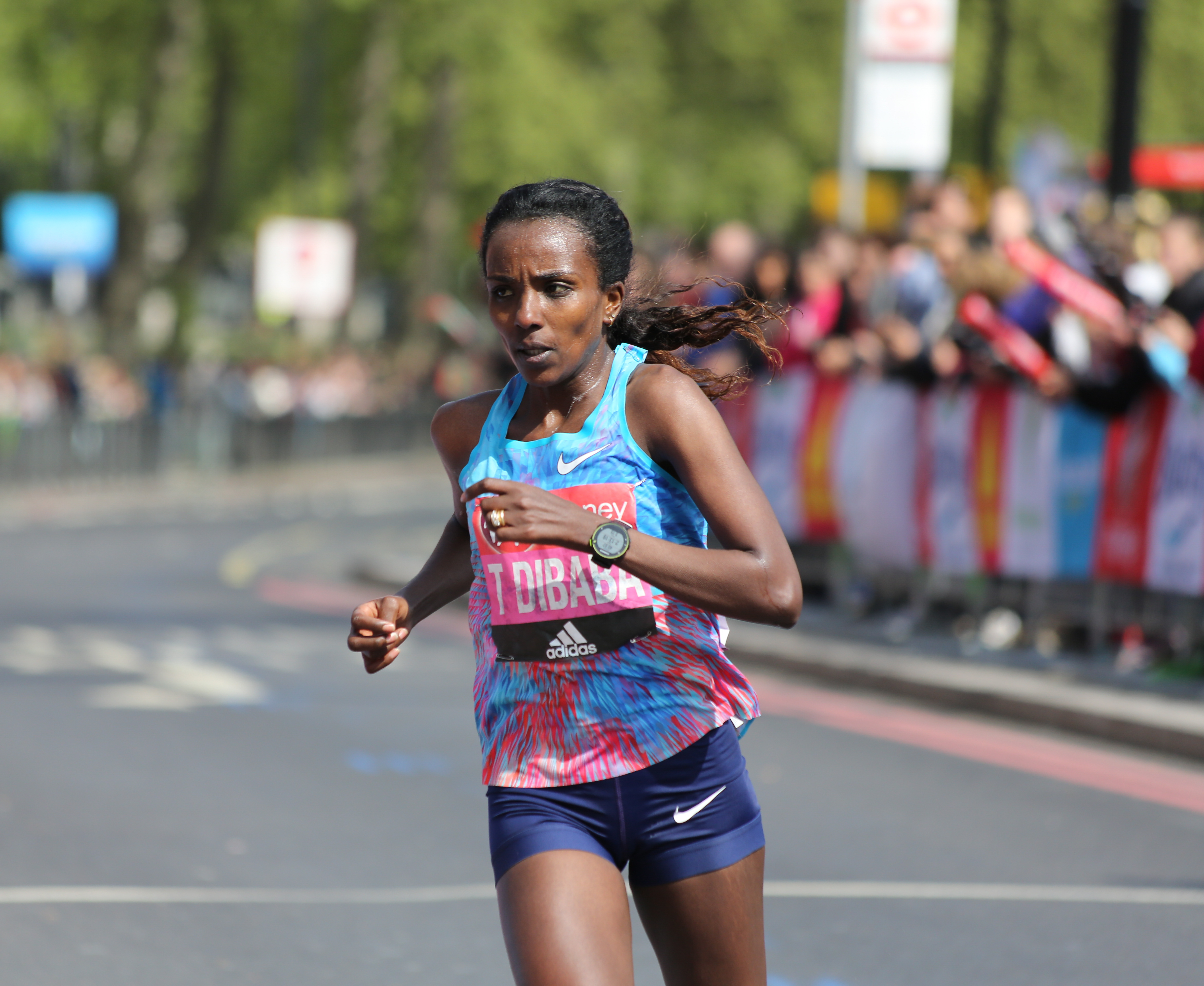 2017 London Marathon – Tirunesh Dibaba